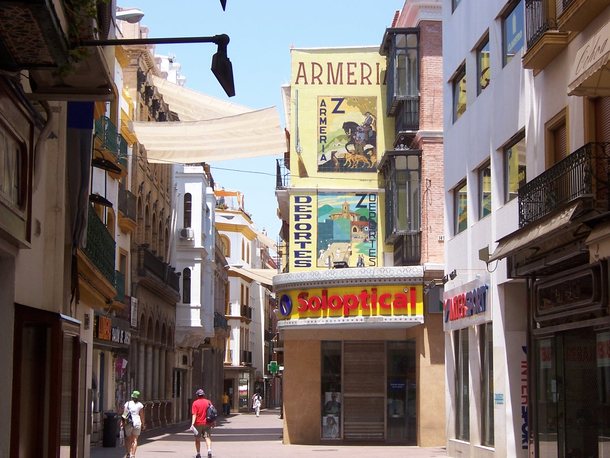 Calle Sierpes camera: Kodak DX7440 Source: *Daniel Csorfoly